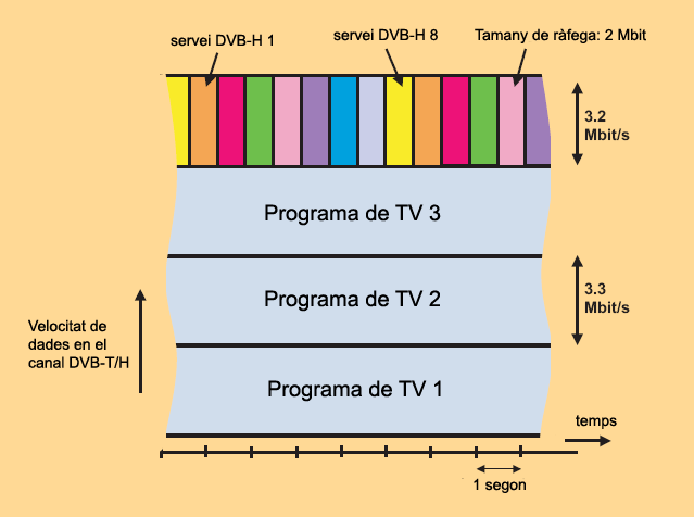 The time slicing principle: example of a service multiplex in a common DVB-T/H channel, including time-sliced DVB-H services.